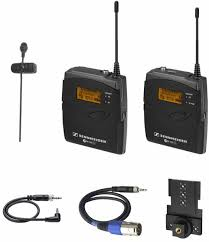 Lavalier Microphone